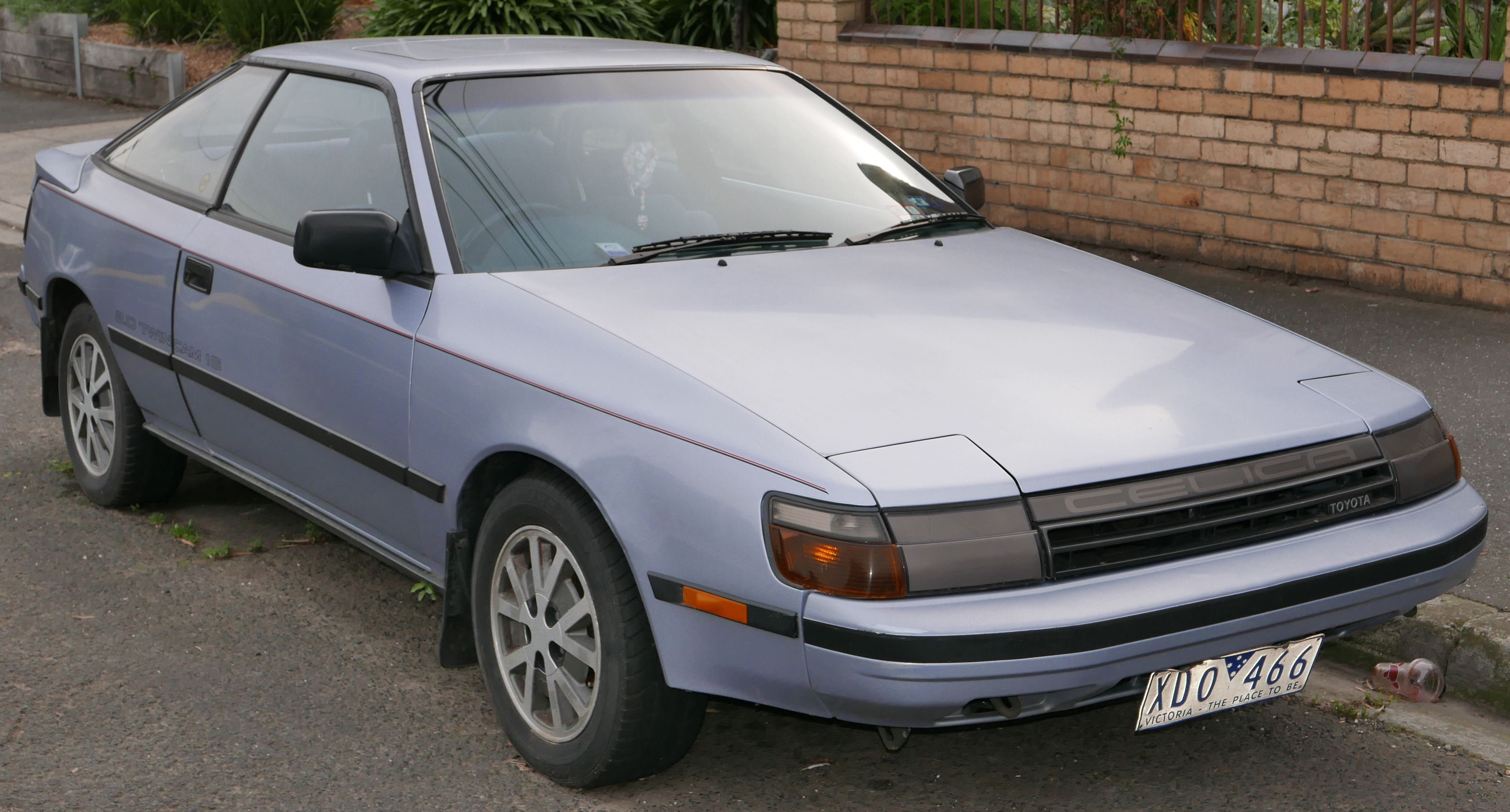 1987 Toyota Celica (ST162) SX liftback. Photographed in Flemington, Victoria, Australia. Vehicle registration enquiry results Jurisdiction Victoria Registration XDO466 Chassis code Not available Engine code 3S0284498 Compliance date Not available Year of manufacture 1987